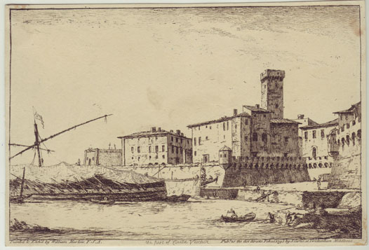 Etching of Civitavecchia, dated 1795, by William Marlow (1740-1813)